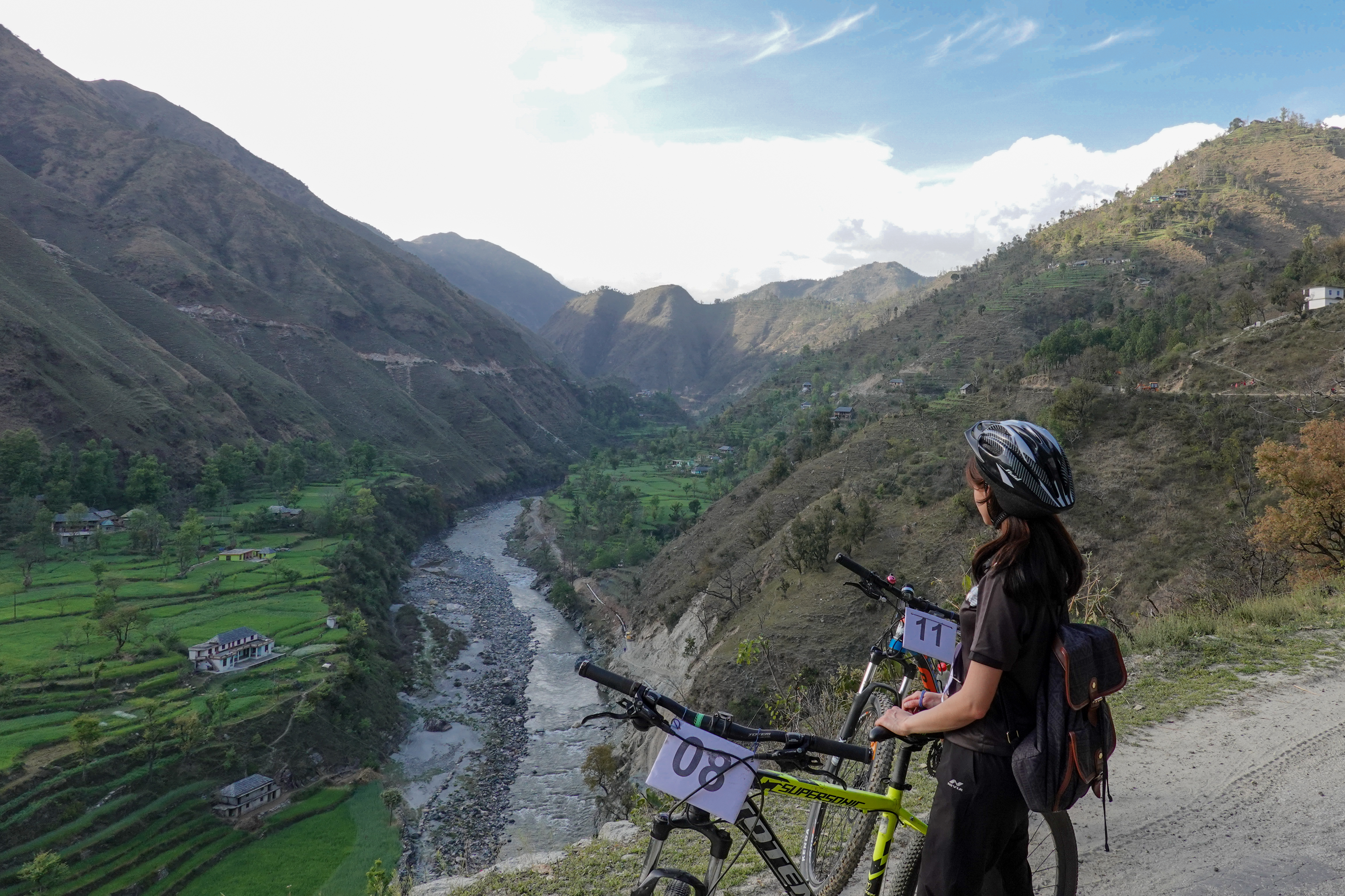 Biker from IIT Mandi Mountain Biking Club looks up the Uhl River Valley towards Ryagadi, near Kamand, Mandi District, Himachal, India